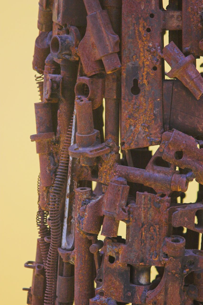 The Tree of Life was created as part of a project in Mozambique to collect military hardware and transform them into sculptures. Here is a closeup of the trunk.